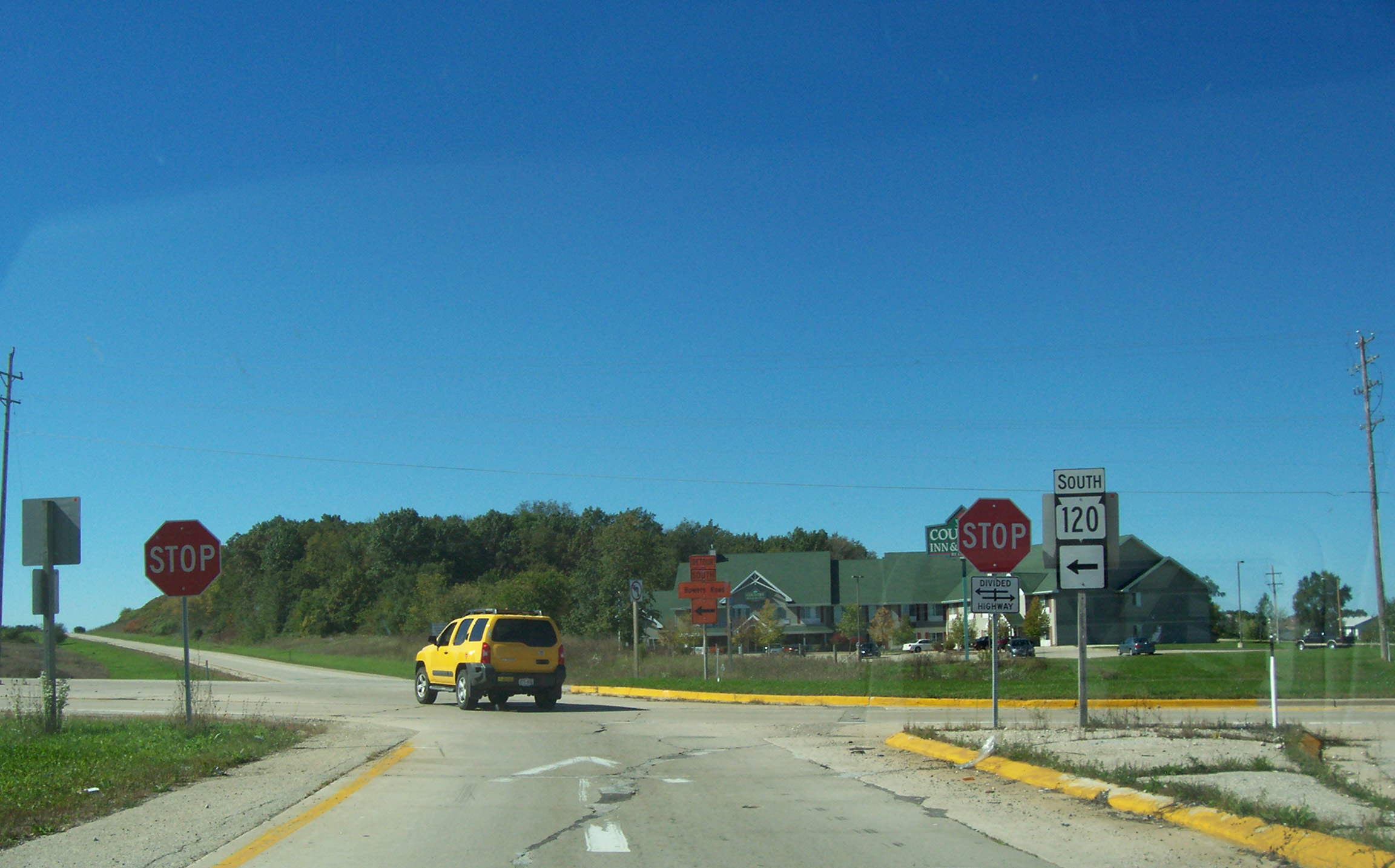 Looking west while on the Interstate 43 offramp at the north terminus of Highway 120 (Wisconsin) in Walworth County, Wisconsin. This image was taken on October 1, 2006 and cropped by User:Royalbroil. Category:Images of Wisconsin highways